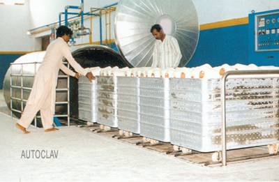 Autoclav for yarns